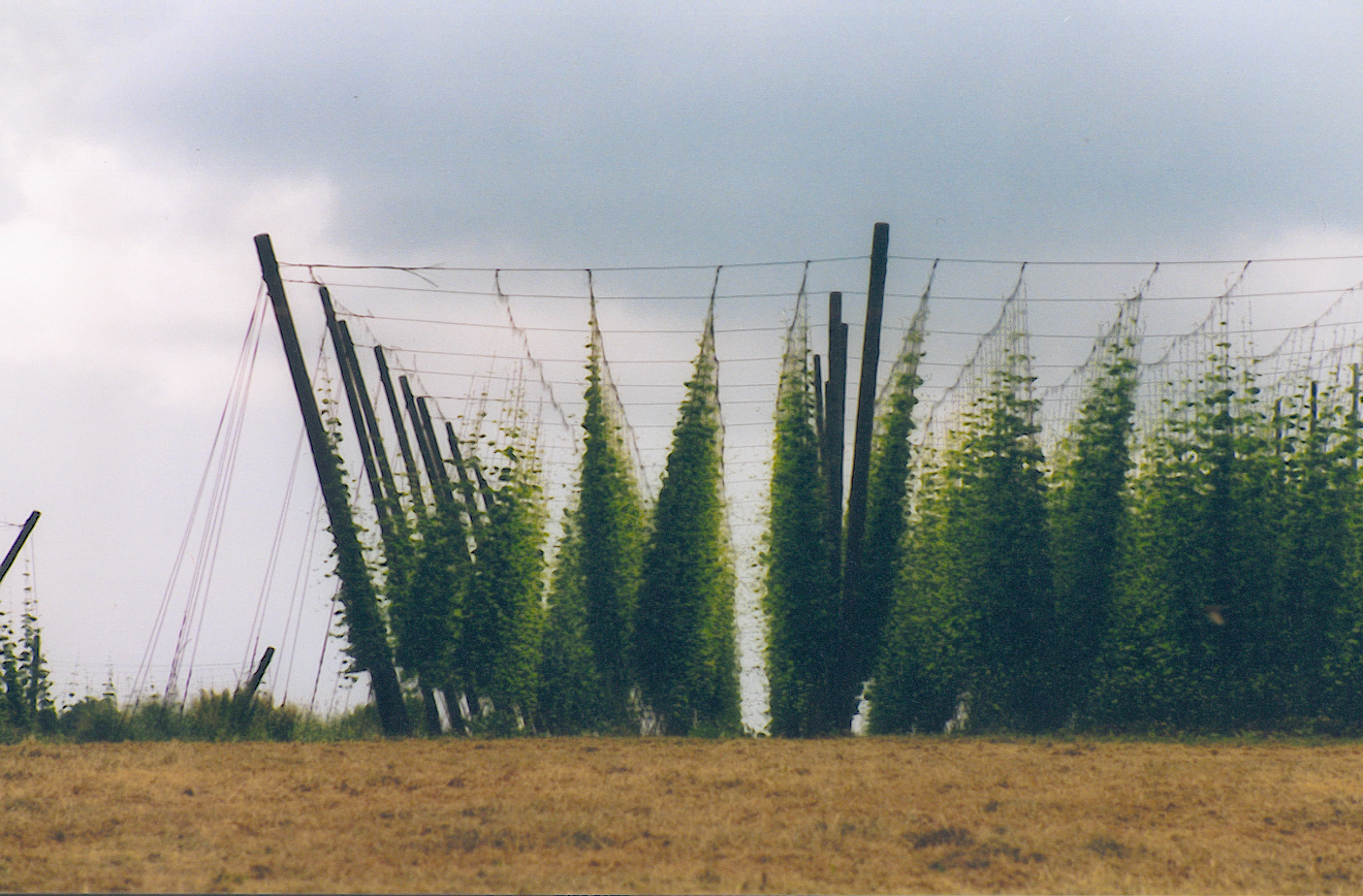 hop growing at ropes in southern Germany